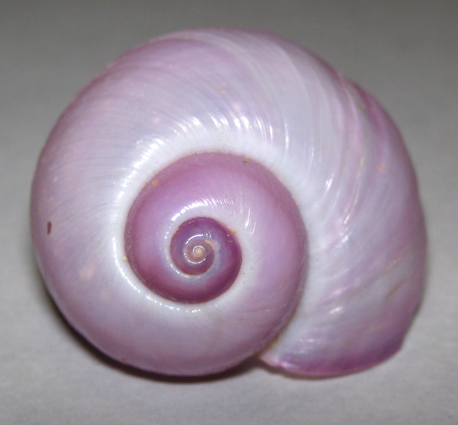 Janthina globosa Swainson, 1823 - purple sea snail shell from Aruba (apical view; modern, latest Holocene; 2.3 cm across at its widest). The Janthina purple sea snail is a remarkable organism. The snail makes a thin calcareous shell that is dark purple-colored in the lower parts and pale to light purplish-colored in the upper parts. This is a good example of reverse countershading. Ordinary countershading involves organisms, such as halibut fish, having dark-colored uppersides and light-colored lowersides. This makes it difficult for predators to see them from above or from below. Janthina is reverse countershaded. One would surmise that the purple sea snail's body is therefore upside-down while it is the water. This is exactly the situation. Janthina makes a bubble raft and the shell is oriented spire-downward (or close to it). The result is an organism that is dark on top and light on bottom. Janthina is a part of the macrozooplankton in the world's oceans. It's bubble raft keeps it from sinking in the water column. It preys on jellyfish-like medusiform organisms such as Physalia, Velella, and Porpita (Phylum Cnidaria, Class Hydrozoa). In ancient times, one source of purple dye for clothing was Janthina purple sea snails. Classification: Animalia, Mollusca, Gastropoda, Janthinidae Locality: Bare Ass Beach, northeastern shore of Aruba, southwestern-most Lesser Antilles, southern Caribbean Sea The gastropods (snails & slugs) are a group of molluscs that occupy marine, freshwater, and terrestrial environments. Most gastropods have a calcareous external shell (the snails). Some lack a shell completely, or have reduced internal shells (the slugs & sea slugs & pteropods). Most members of the Gastropoda are marine. Most marine snails are herbivores (algae grazers) or predators/carnivores.